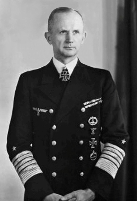 Information added by Wikimedia users.Cropped portrait of German Grand Admiral Karl Dönitz. Image cropped and subjected to the following changes (decreased brightness, increased contrast) by Emiya1980 using Photo Editor at before reuploaded to Wikimedia Commons.